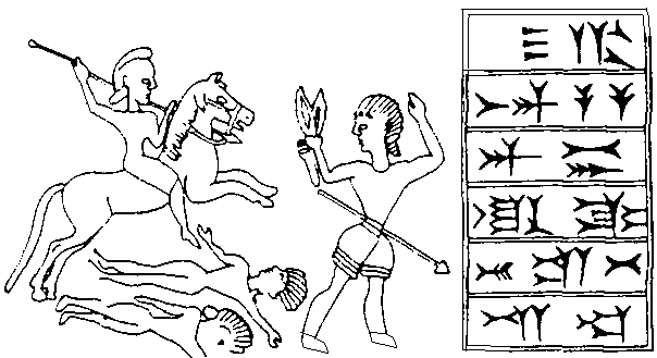 Seal of Cyrus I Seal right [Kurash [i.e., Cyrus] the Anshanite, son of Teispes]